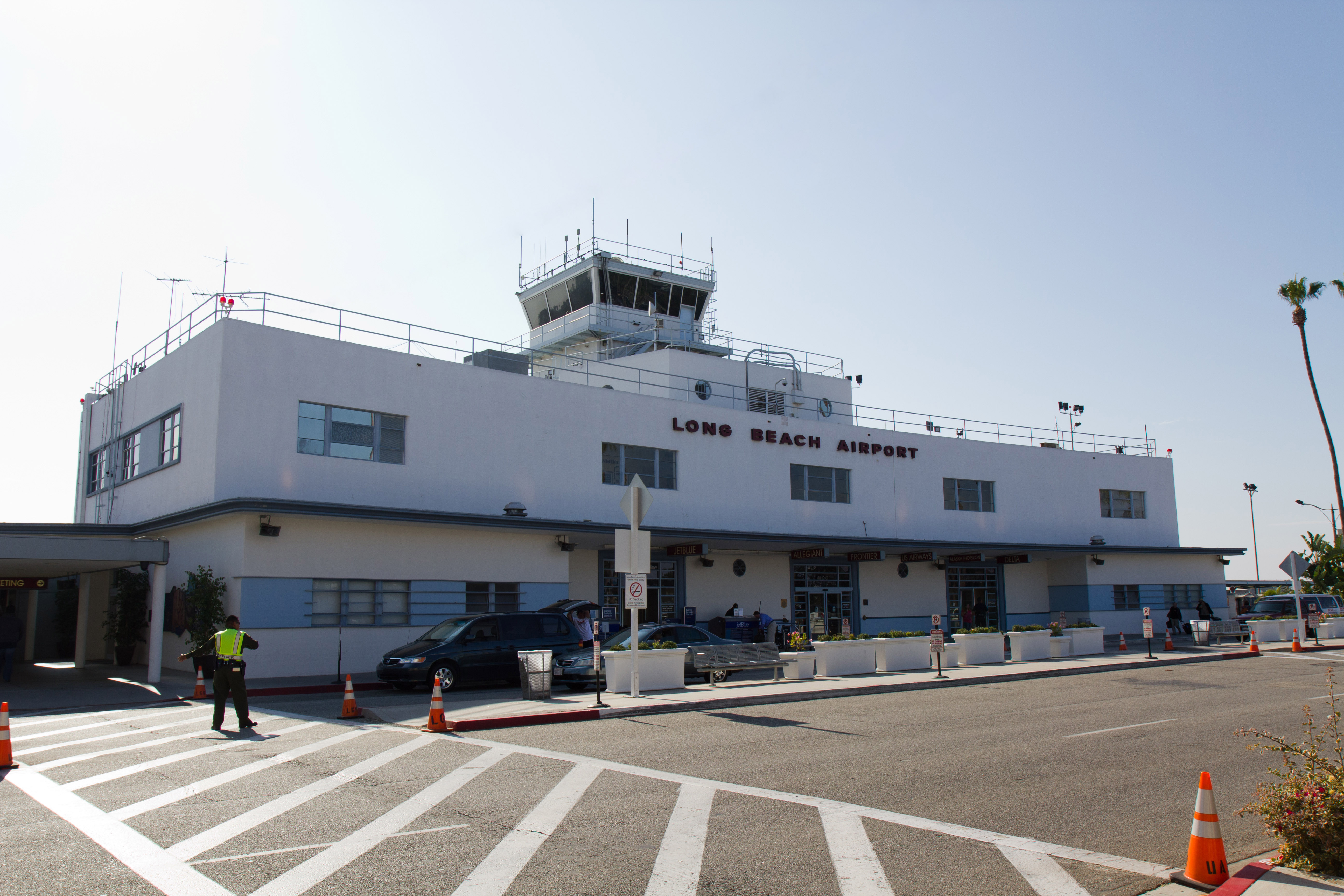 This is the ticketing building; it probably has some administration in there too (along with the control tower). The actual "terminal" is a detached building behind this one. I wasn't very impressed. Not only do you have to walk under and wait in a tarp to get to security, but the terminal is tiny and boring. Outlets were not plentiful, and the one I could find was only half working. The person using the lower half was fine, but the upper half did not work.